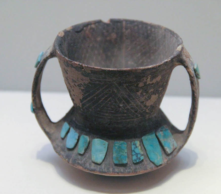 Pottery jar inlaid with turquoise, Siba Culture, (1500-1300 BC), Gansu. National Museum of China